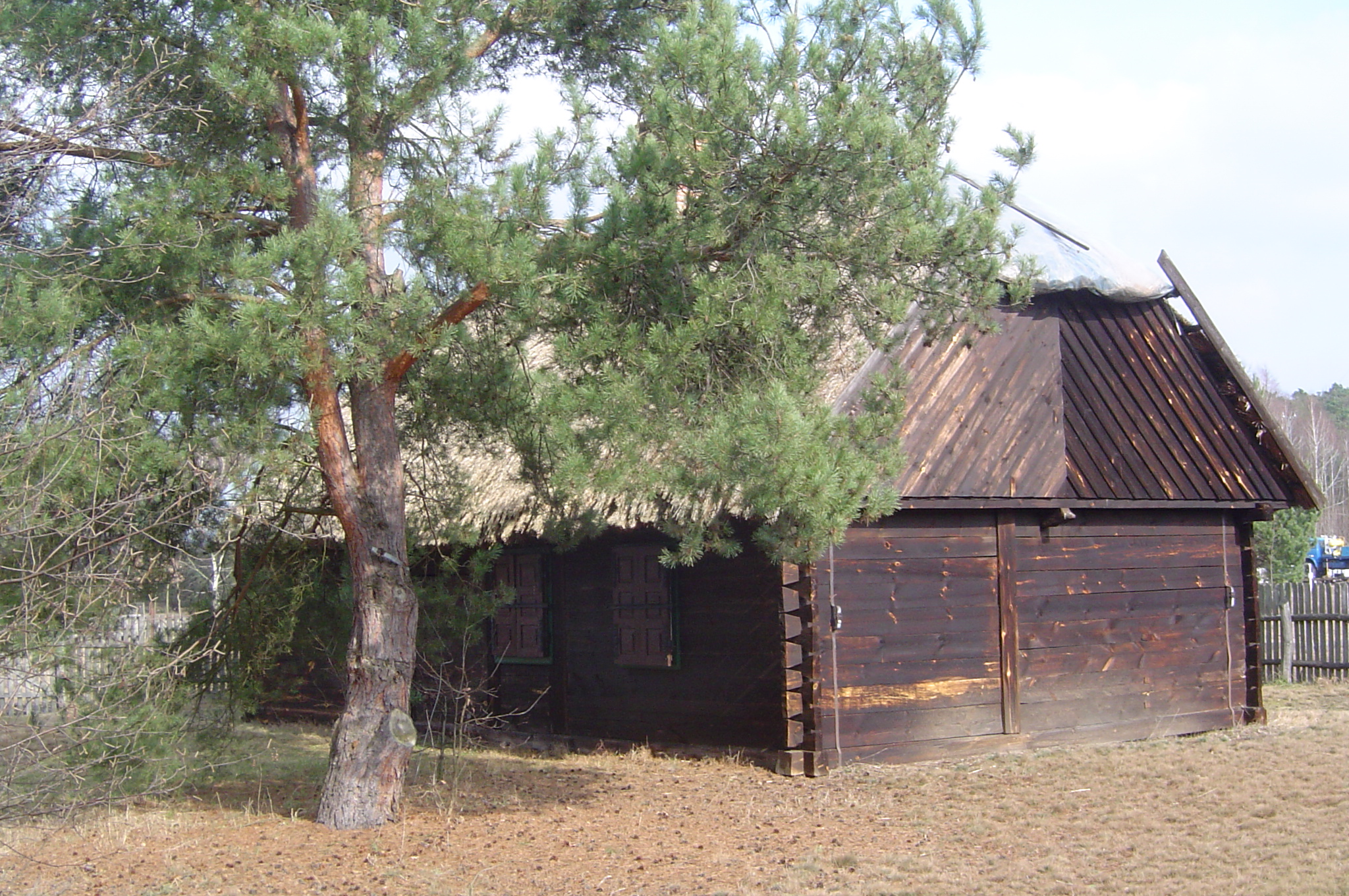 open air museum in Granica